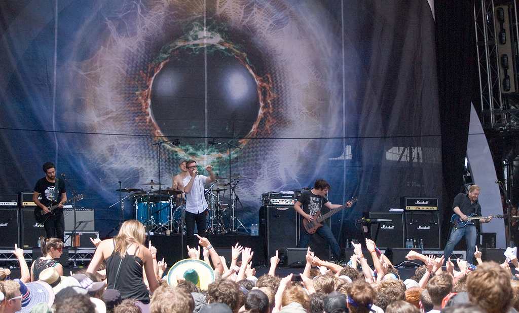 Karnivool performing at Big Day Out 2010